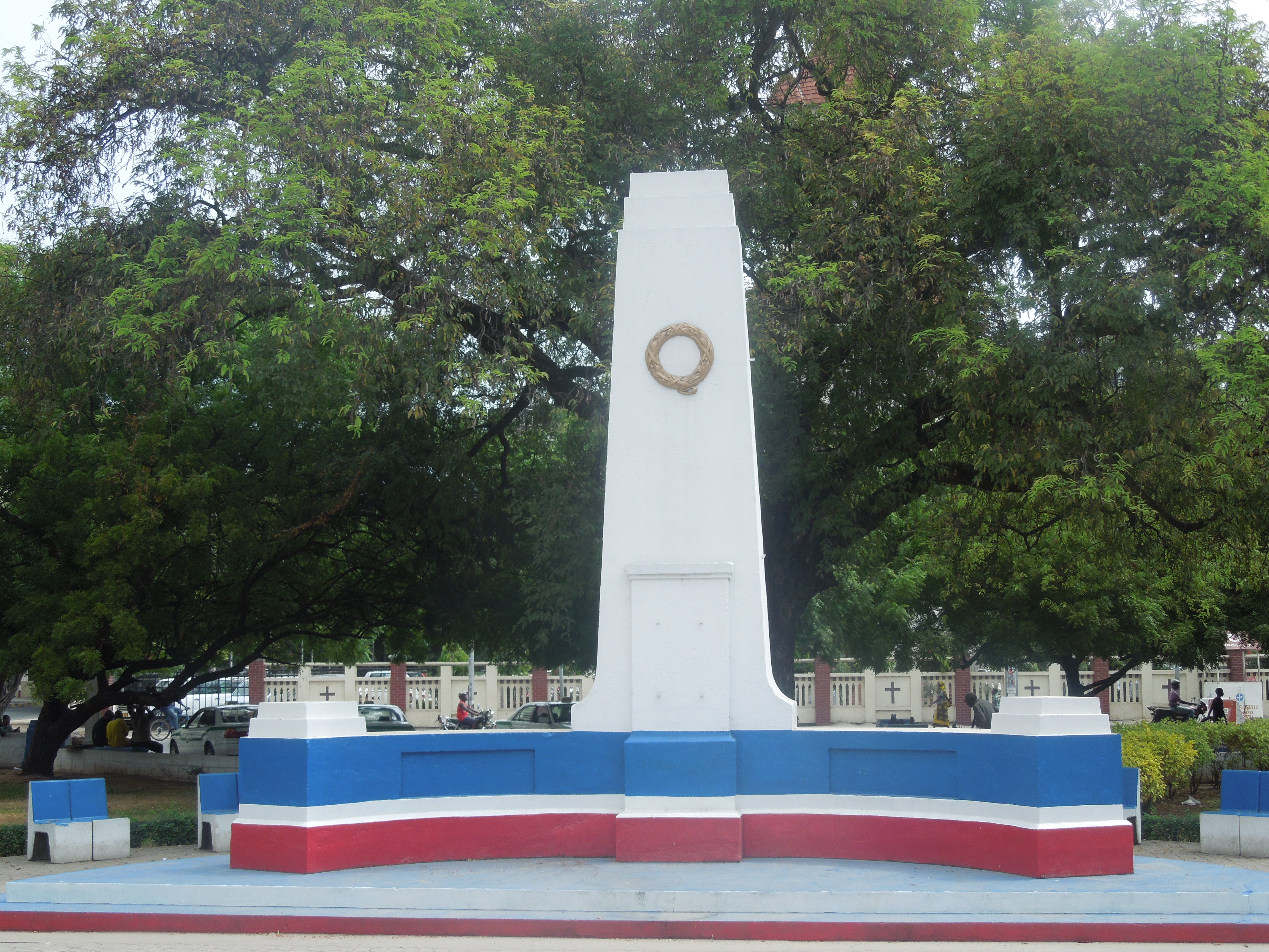 Dar es Salaam Cenotaph